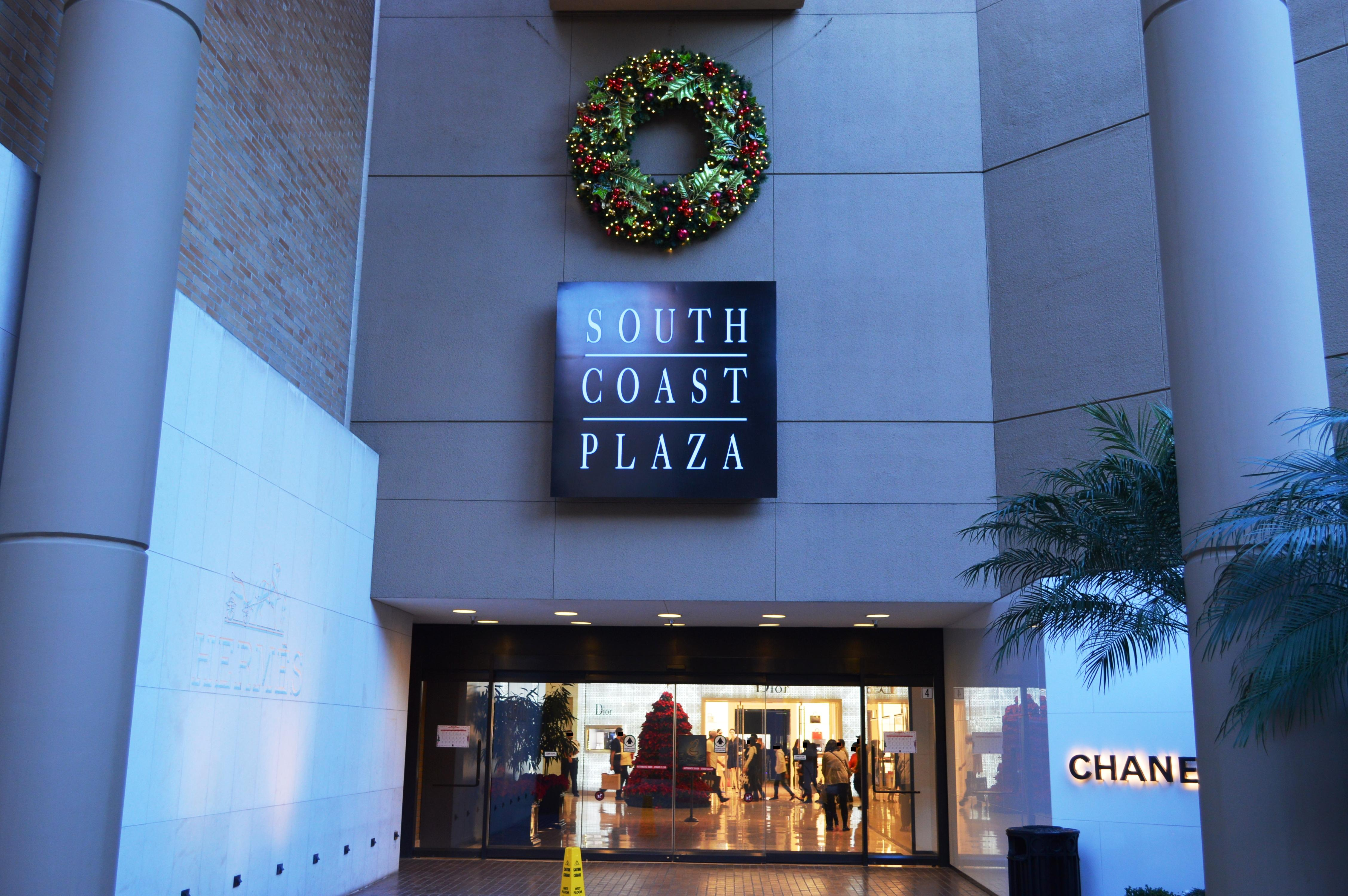 One of several mall entrances, decorated for holidays - South Coast Plaza in Costa Mesa, California, U.S.A.